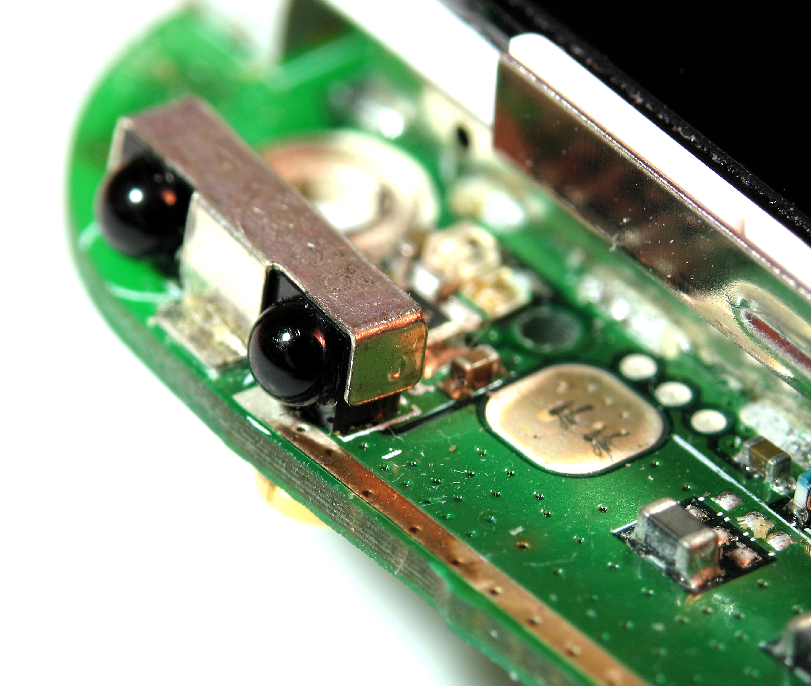 Taken with a reversed 50mm prime lens, taped securely to a filter adapter attached to my Canon S70. My phone died recently. I think the charging circuit quit working, because it would recognize being plugged into power, but the battery never charged. It has since been replaced.